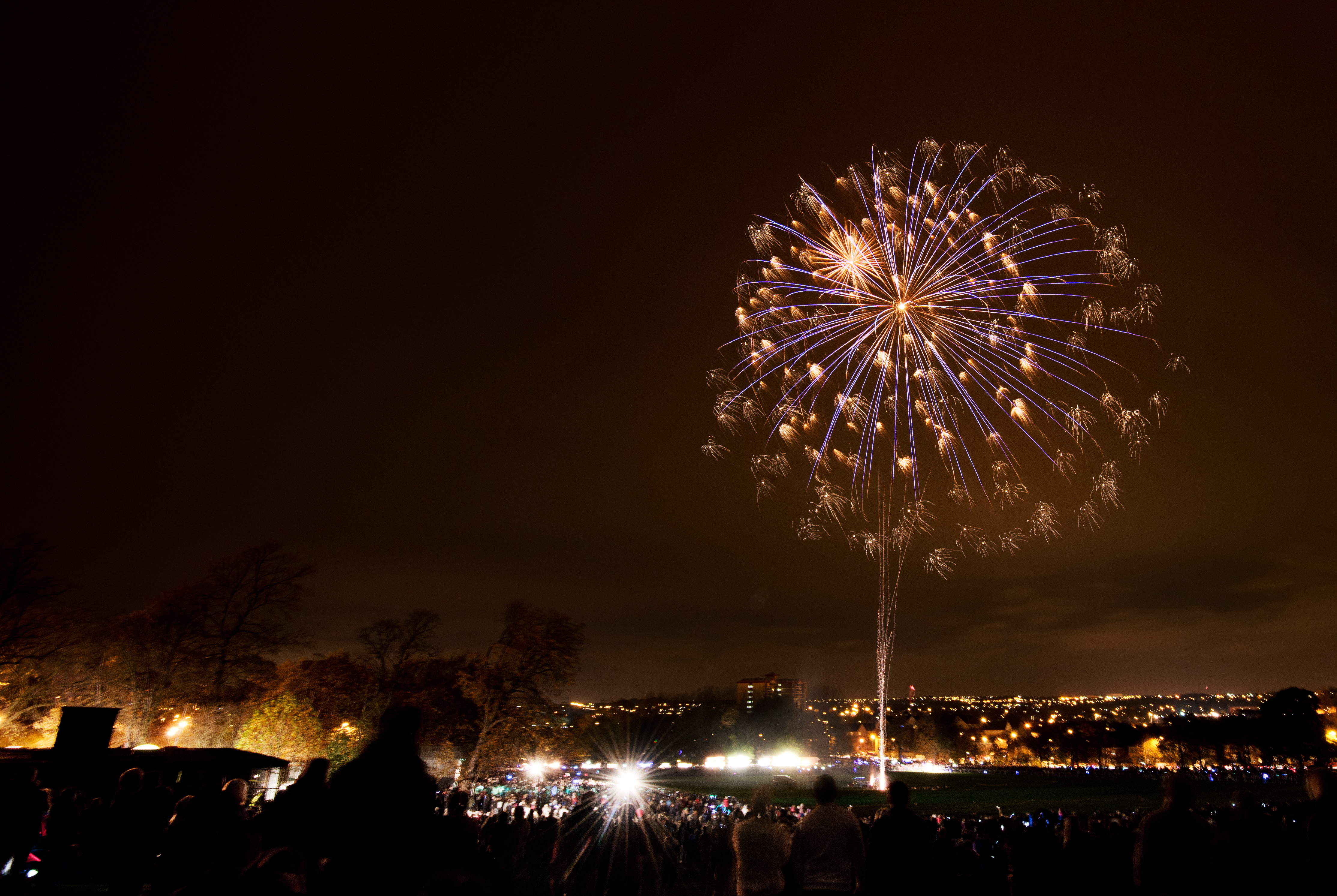 "Superb free firework display in Thornes Park tonight."